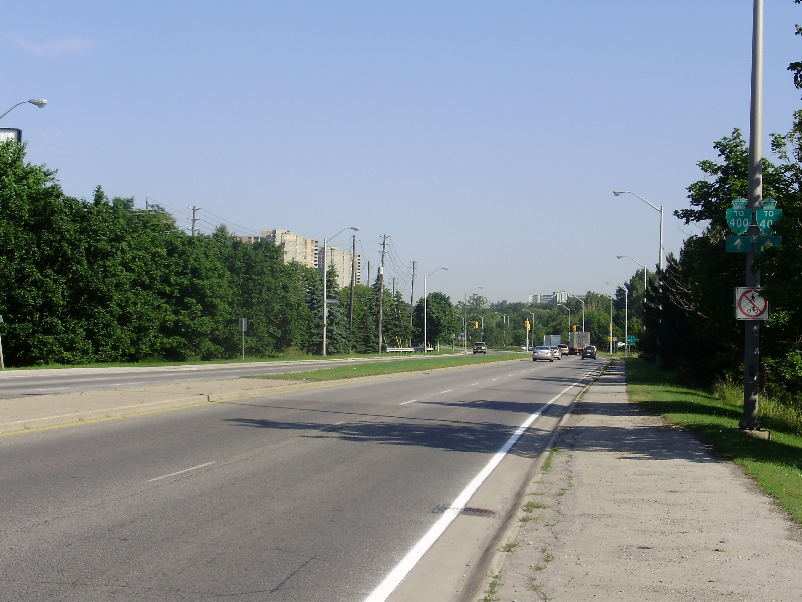 Looking north along Black Creek Drive from its intersection with Eglinton Avenue West in Toronto, Ontario, Canada. Joined trailblazers for Highway 400 and Highway 401 are visible.